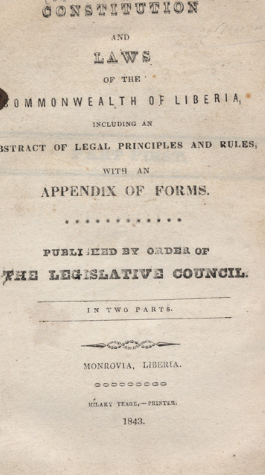 The frist article of Constitution of the Liberian Law of 1843, was promulgated by the Legislative Council of the Commonwealth of Liberia in Monrovia; and contains a bstract of the legal principles and rules.